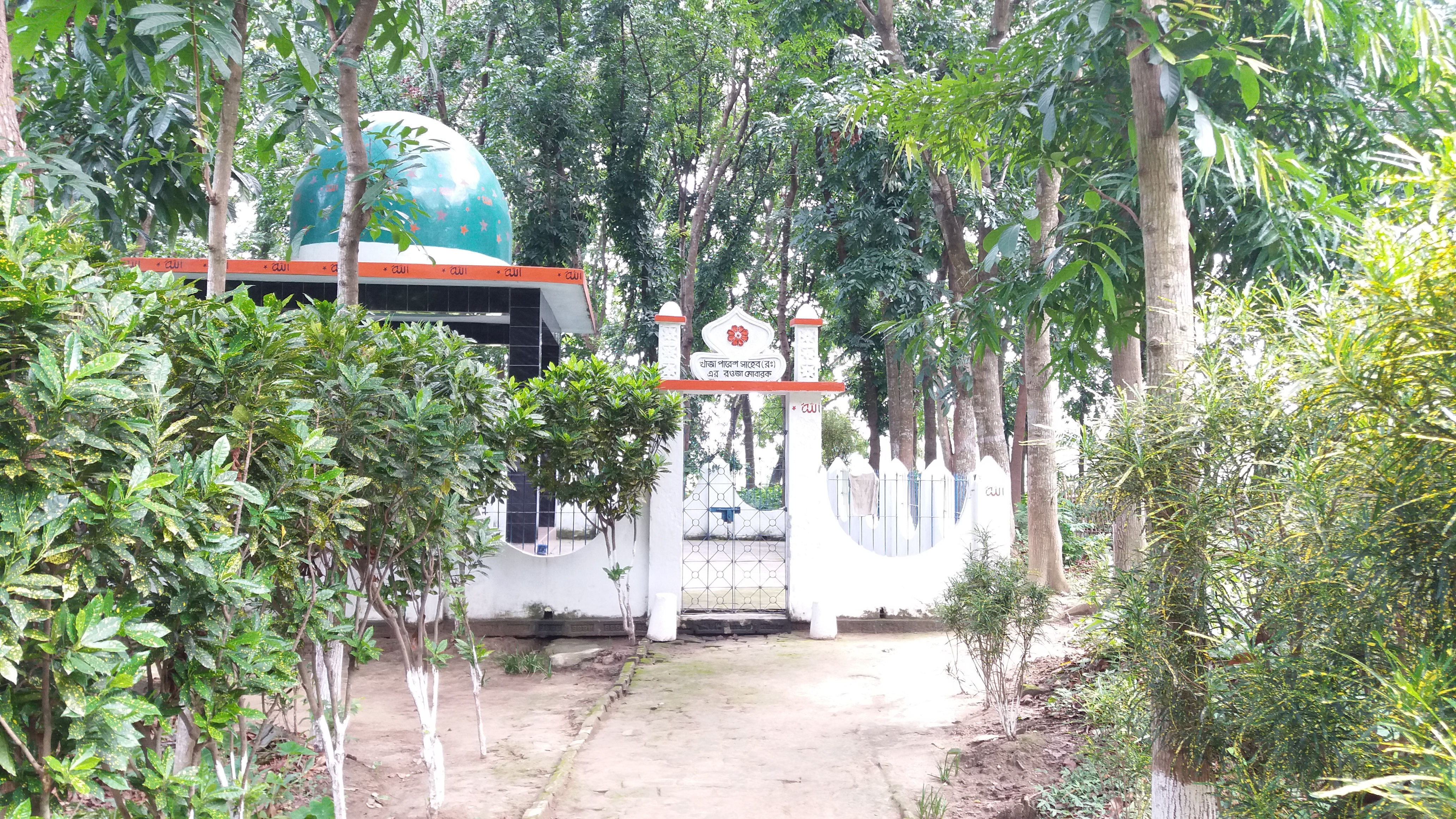 This is the shrine of Hazrat Khaza Paresh (Rh.) situated in Darga Para, Andul Baria, Jibannagar.